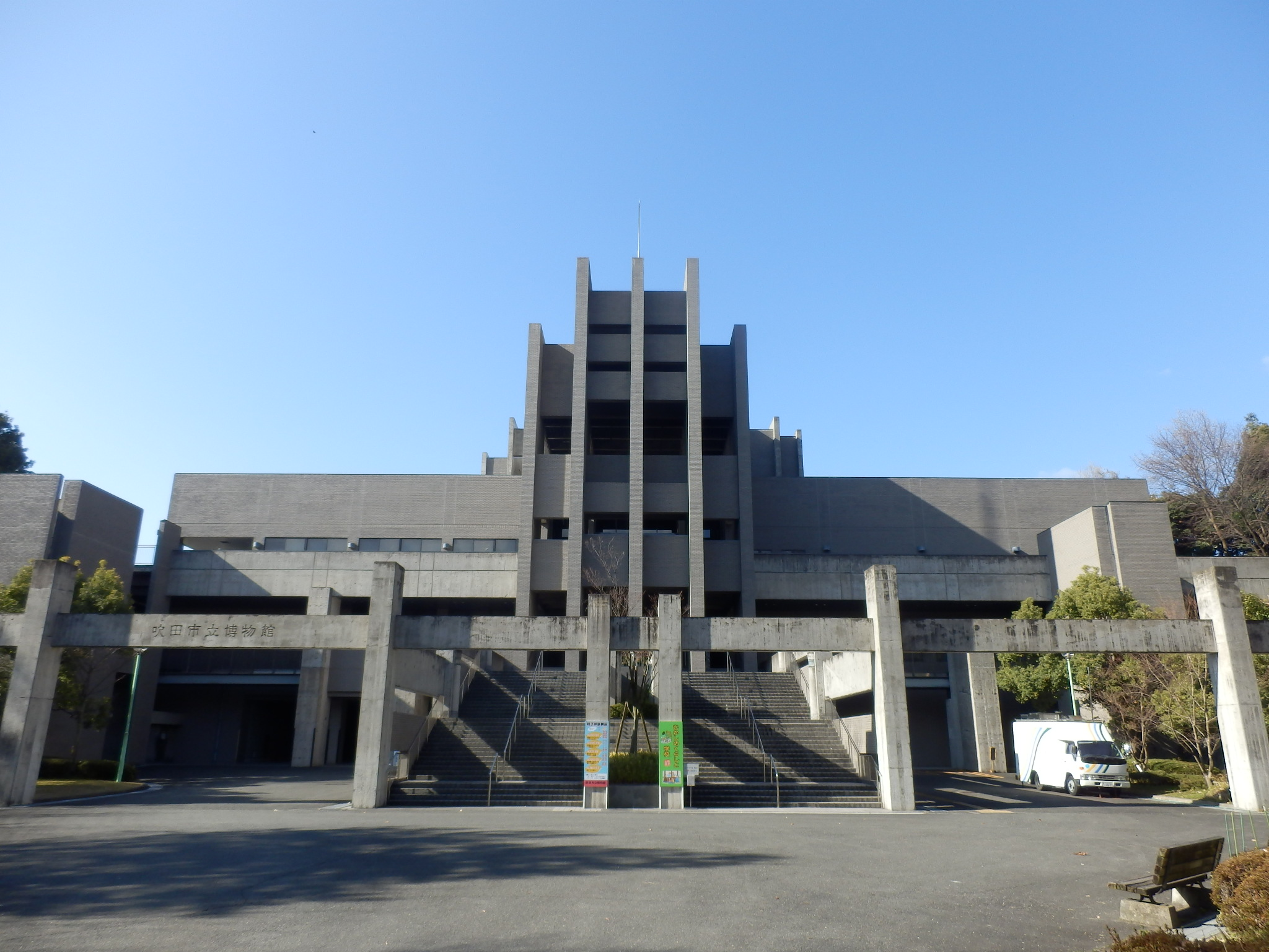 Suita City Museum, Suita, Osaka, Japan